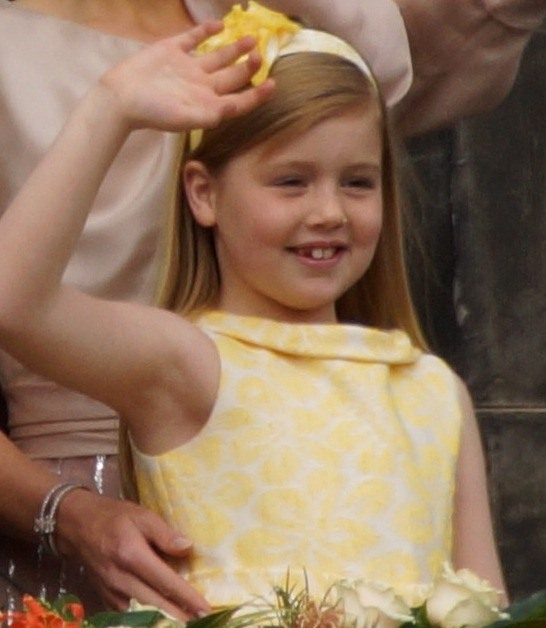 King Willem-Alexander, Queen Maxima and Princesses Catharina-Amalia, Alexia and Ariane during the balcony scene after the abdication of Beatrix.